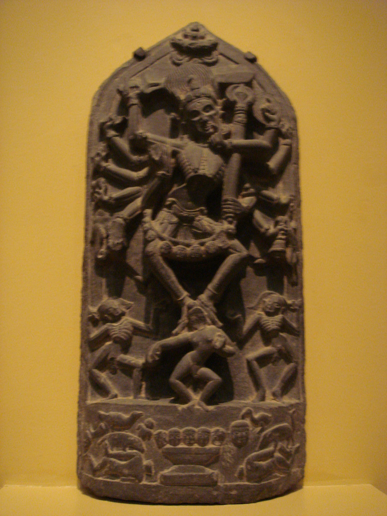 India, West Bengal, South Asia The Hindu Goddess Chamunda, 11th century Sculpture; Stone, Black schist, 24 x 10 3/4 x 3 1/2 in. (60.96 x 27.31 x 8.89 cm) Museum Acquisition Fund and the Indian Art Special Purpose Fund (M.90.166) Wikipedia Loves Art at the Los Angeles County Museum of Art This photo of item # M.90.166 at the Los Angeles County Museum of Art was contributed under the team name "ARTiFACTS" as part of the Wikipedia Loves Art project in February 2009. Los Angeles County Museum of Art The original photograph on Flickr was taken by sisleyceli—please add a comment to the original Flickr page whenever a use has been made on Wikipedia or another project. Project galleries on Flickr: this institution, this team